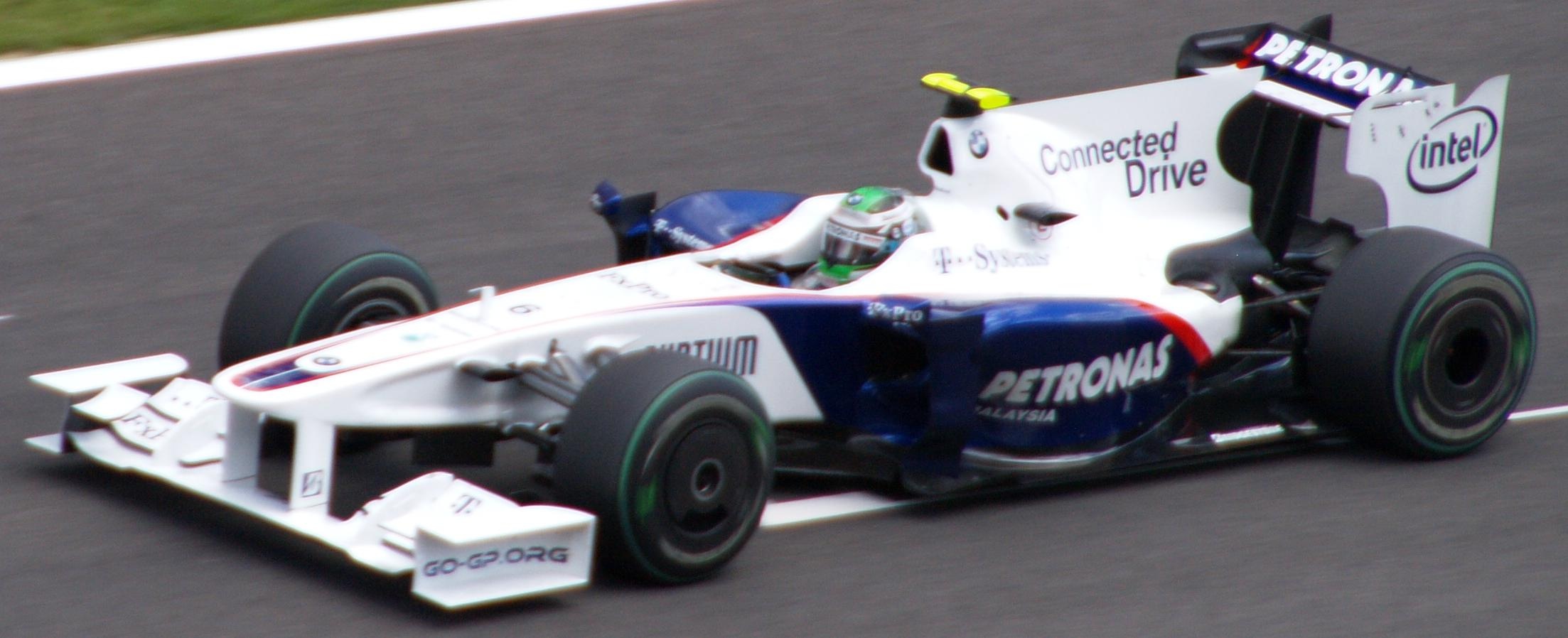 Nick Heidfeld driving for BMW Sauber at the 2009 Belgian Grand Prix.